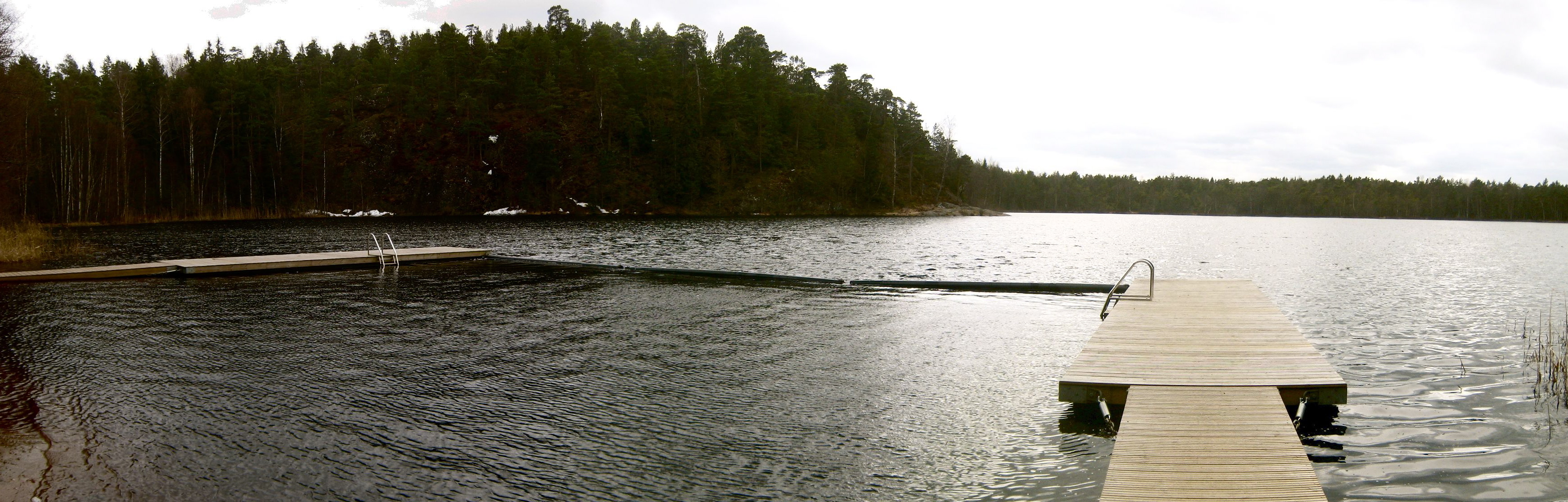 Panorama av Strålsjön.